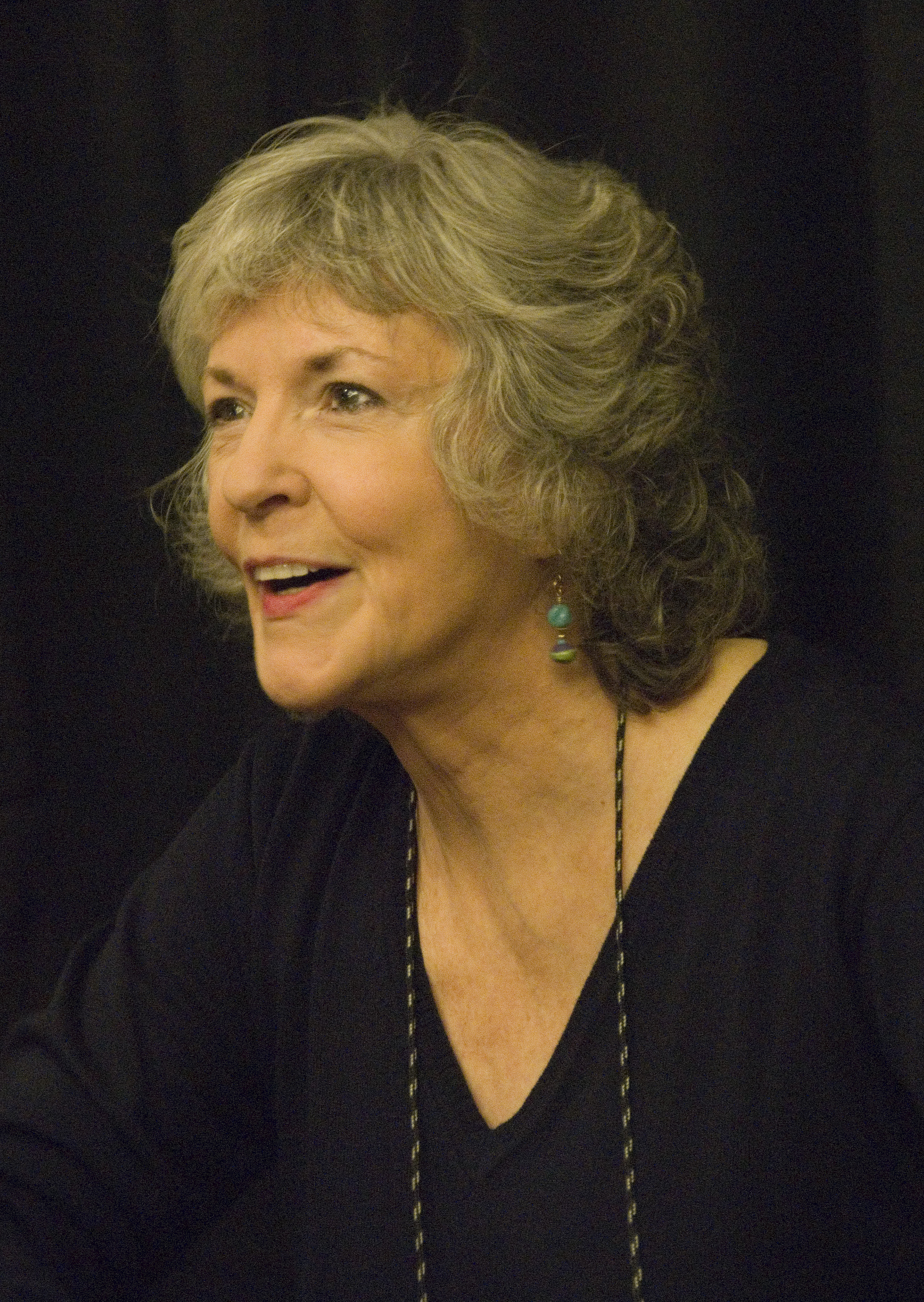 Sue Grafton at Bouchercon 2009 in Indianapolis, Indiana.